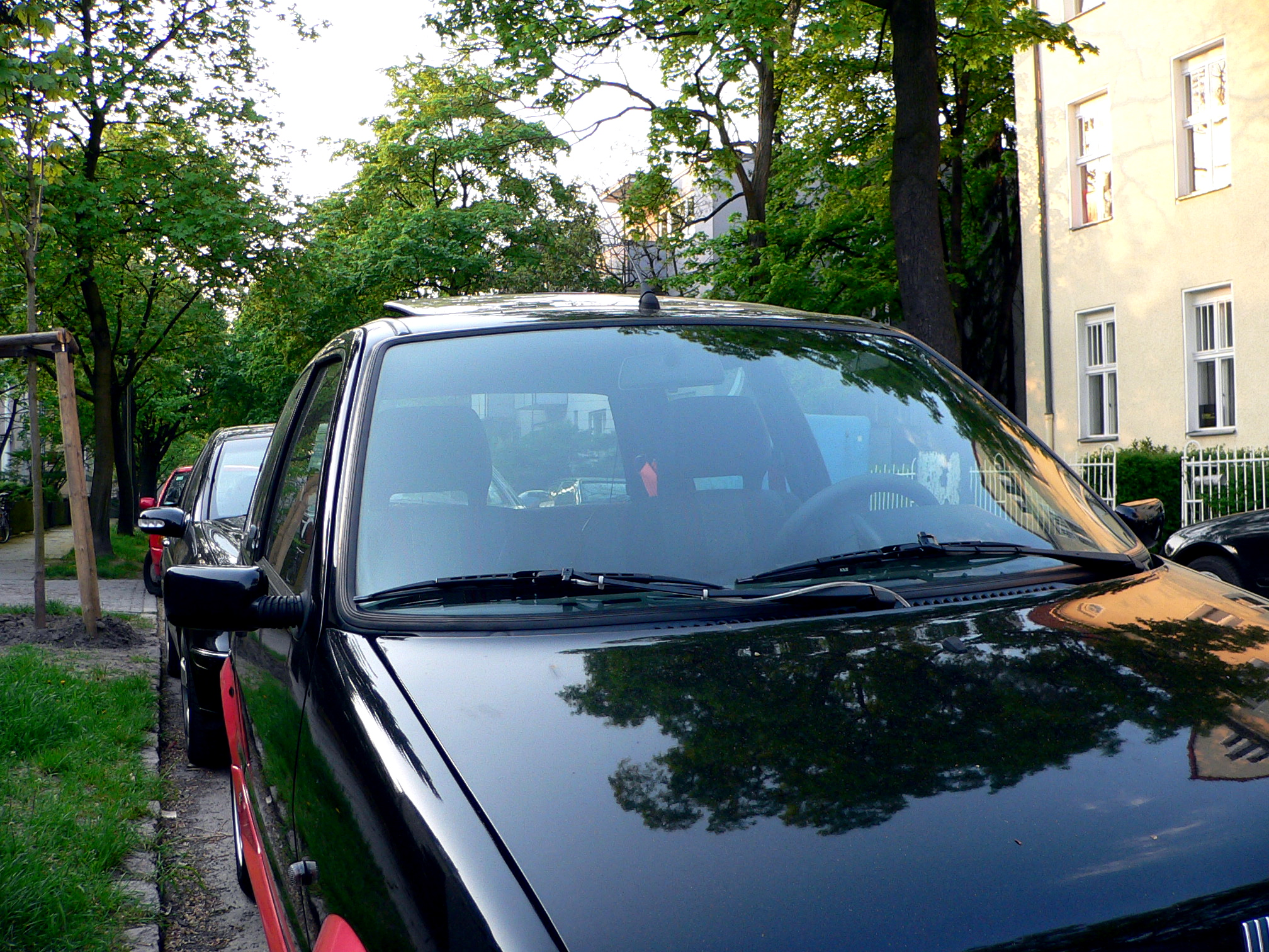 An Image without polarizer. (See File:Polfilter falsch.jpg for false and File:Polfilter richtig.jpg for right adjusted polarizer)